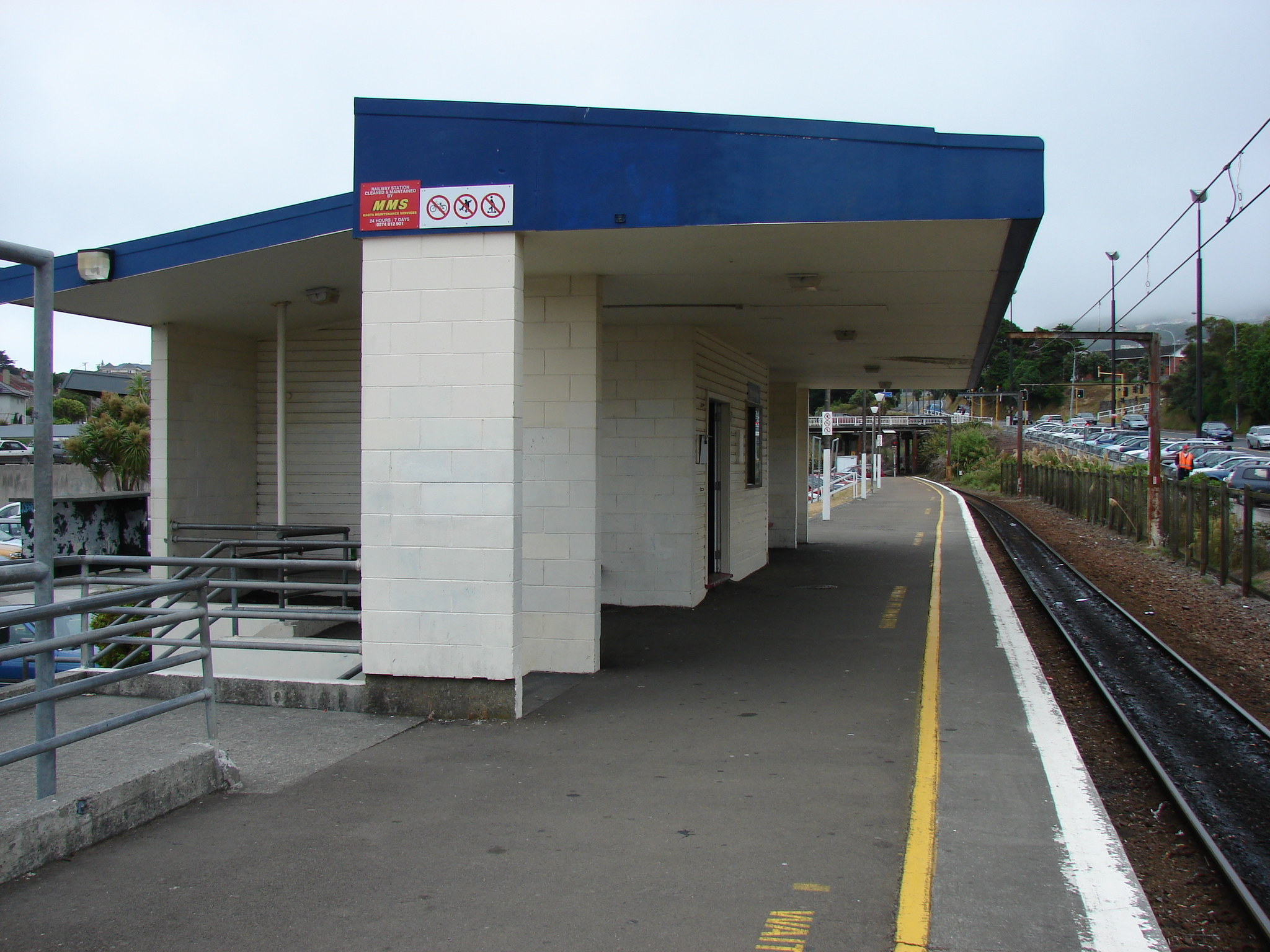 Johnsonville railway station, looking south. Photographed by Matthew25187 on 2007-12-17.